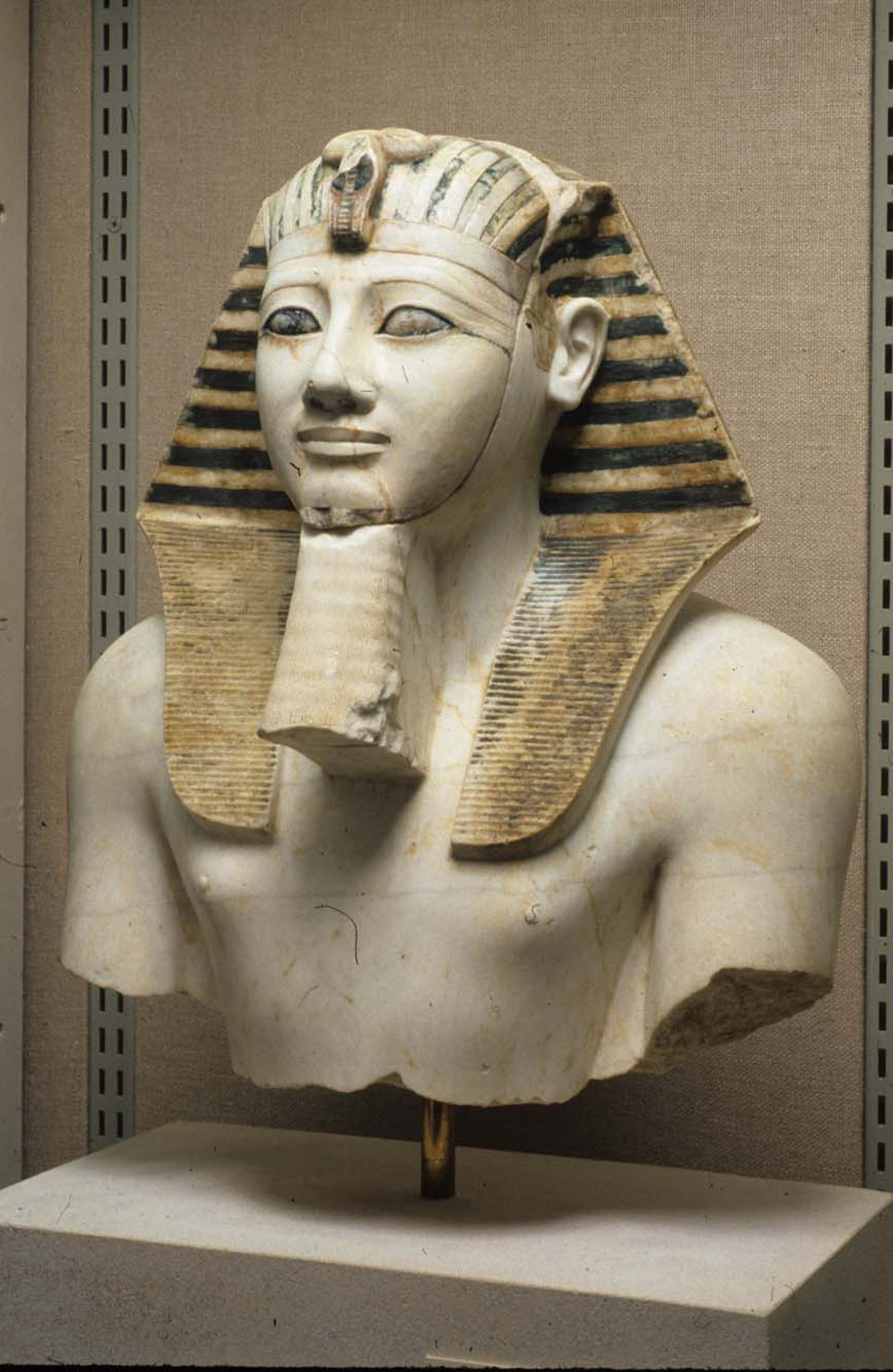 Statue, Thutmose III